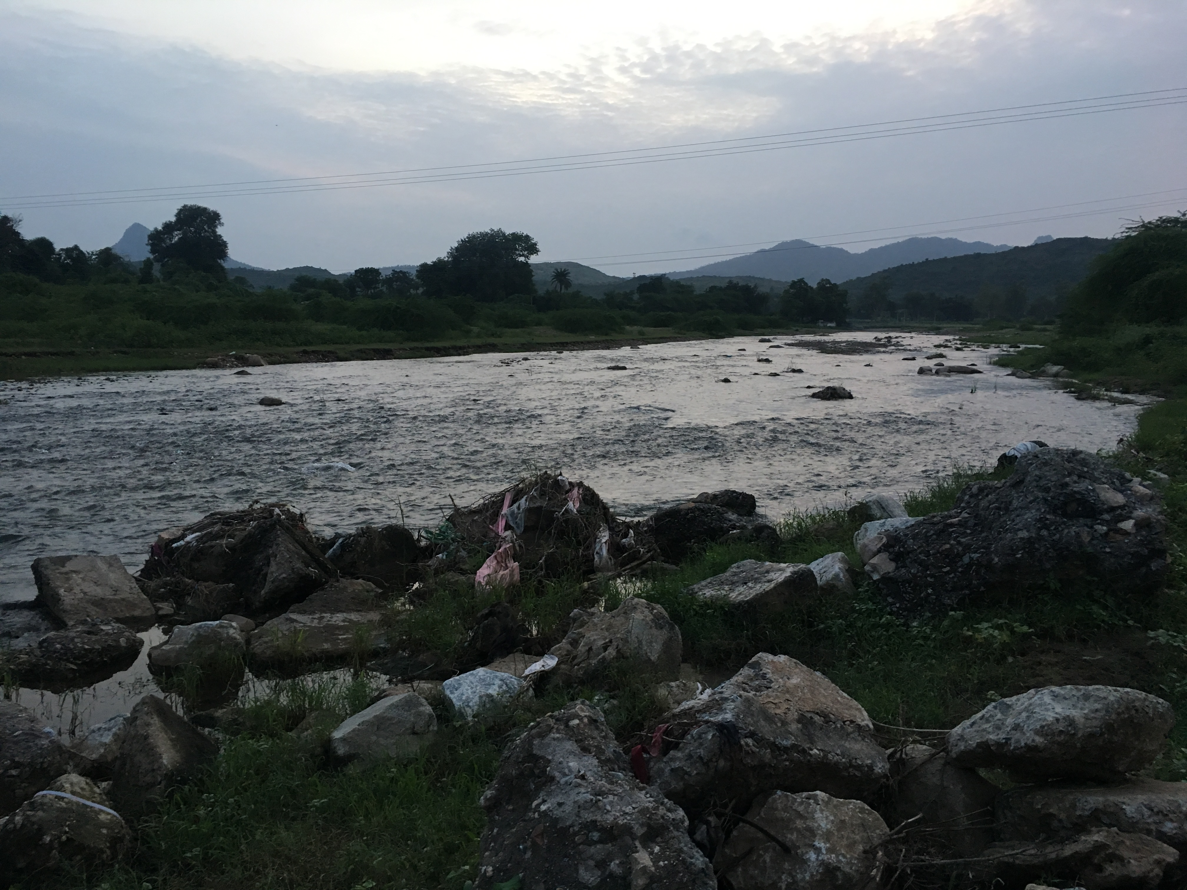 This is natural scene near to Poshina, Gujarat.